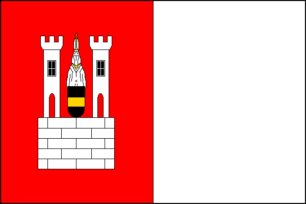 Municipal flag of Rokycany town, Czech Republic.